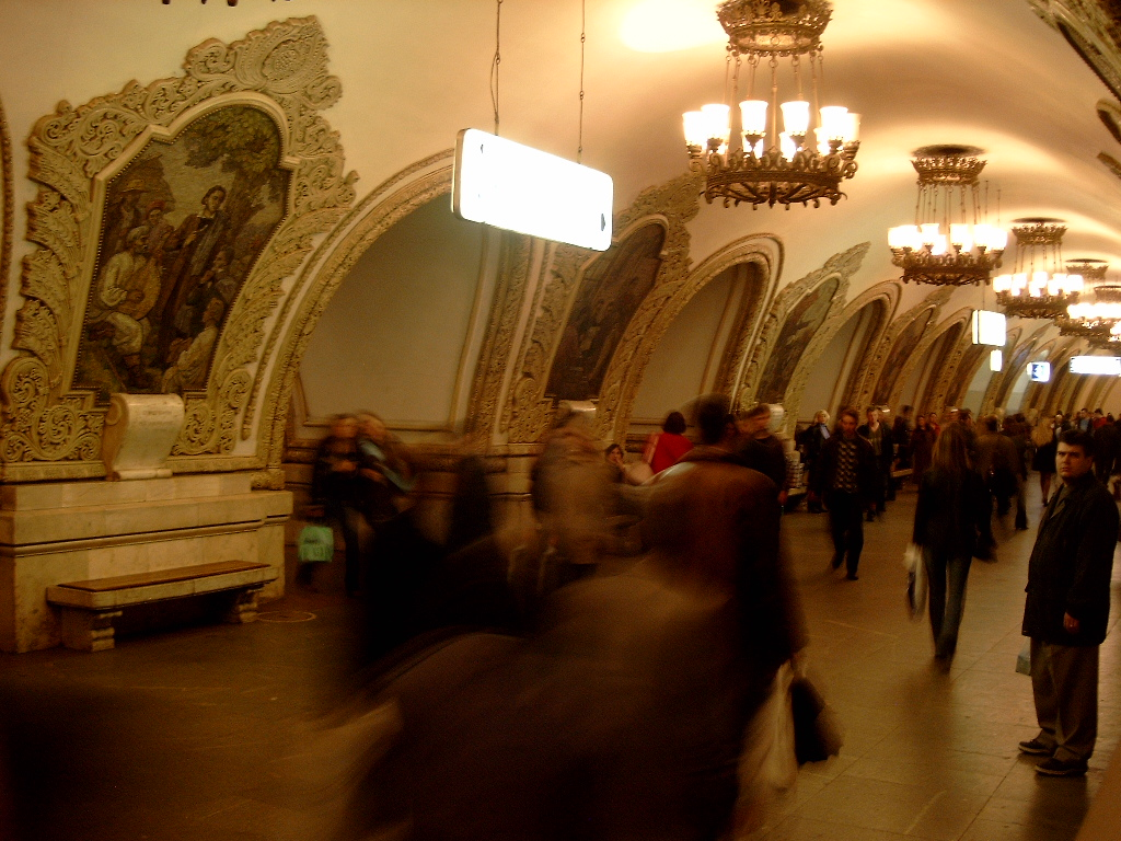 Mosco metro's station Kievskaka